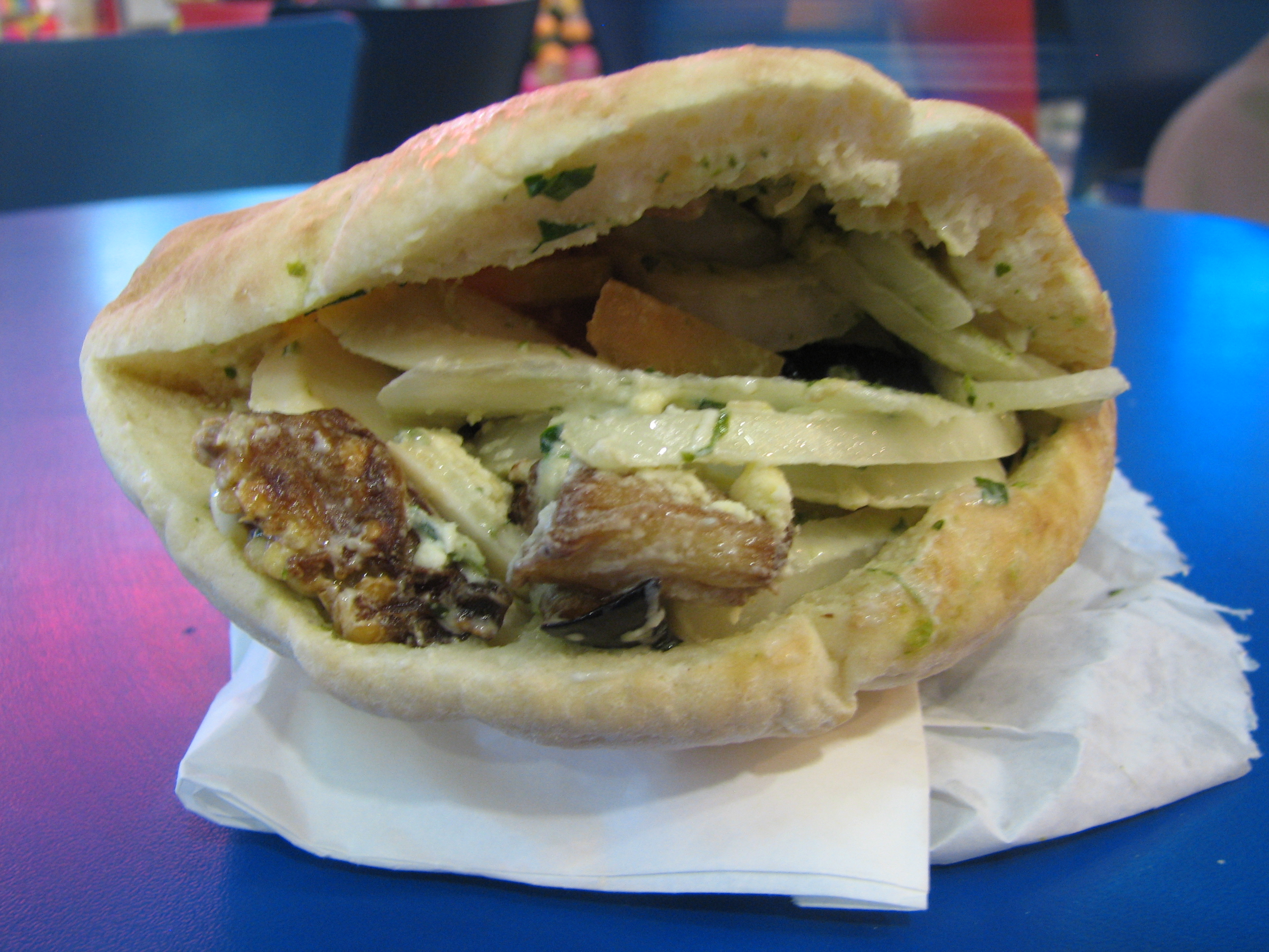 Sabich, Iraqi-Jewish pita sandwich popular in Israel; main ingredients: fried eggplant, hard-boiled eggs, onions, Israeli salad, hummus & tehina, stuffed in a pita